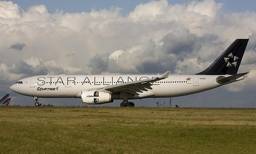 EgyptAir in Star Livery